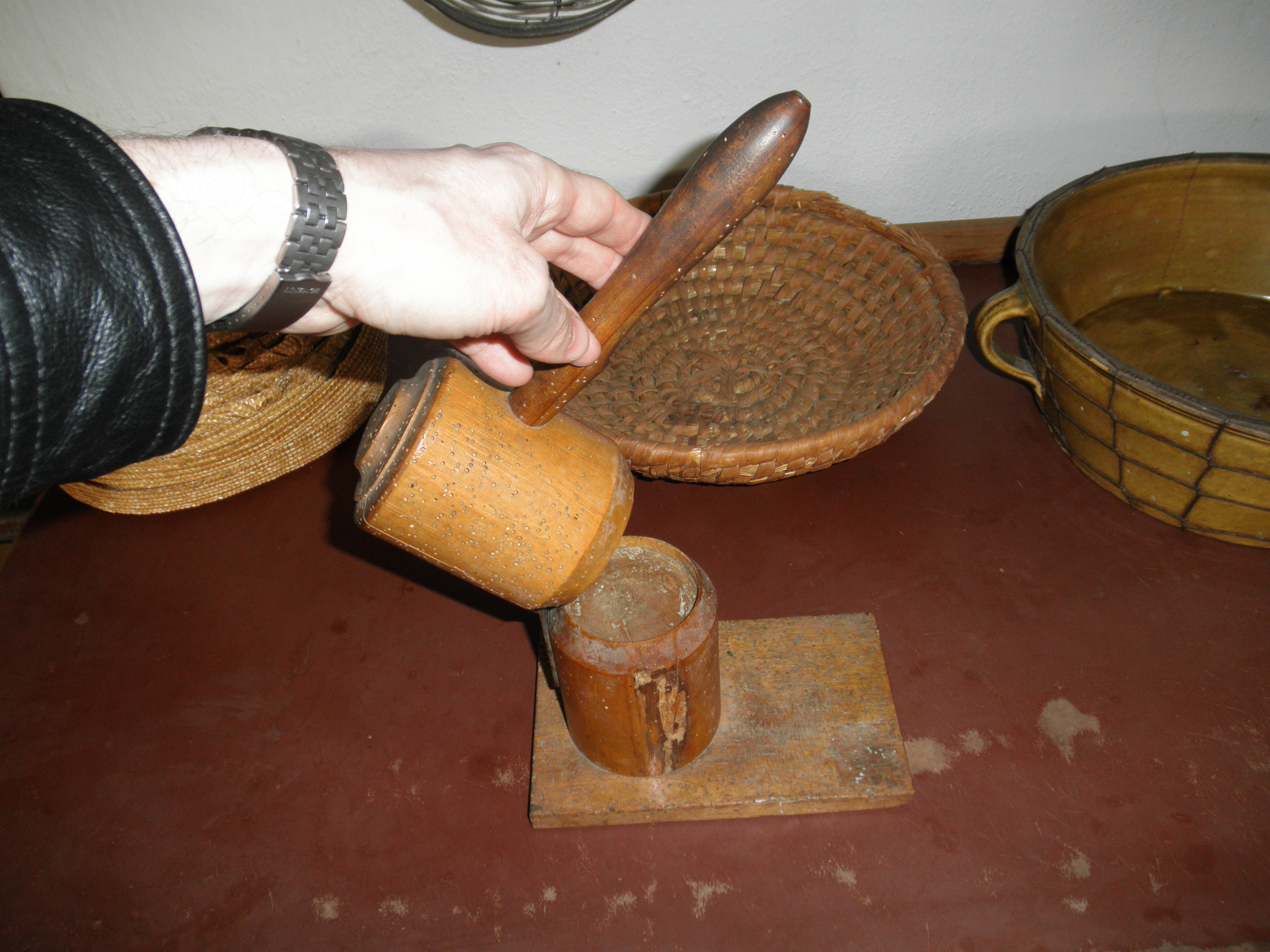 Tool for achieving final shape of olomoucké tvarůžky cheese. It is a hand cheese press called "klapačka" in the Czech language.